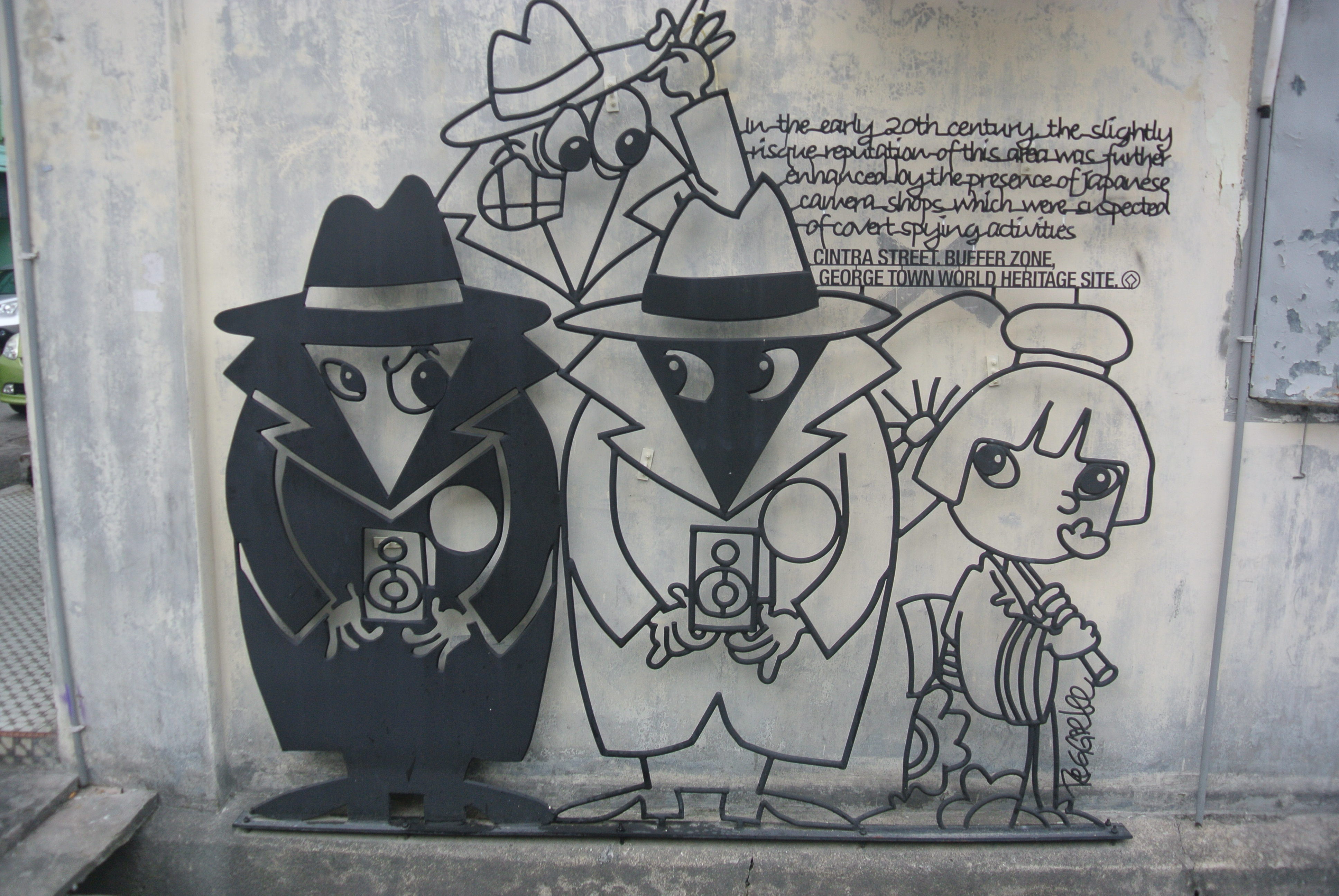 Penang Street Art Lebuh Cintra